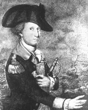 Portrait of Georgia Senator James Jackson, Sr.